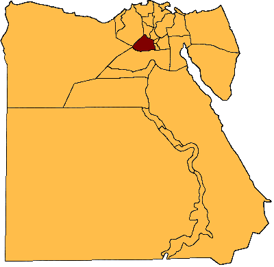 Location of 6th of October governorate in Egypt.